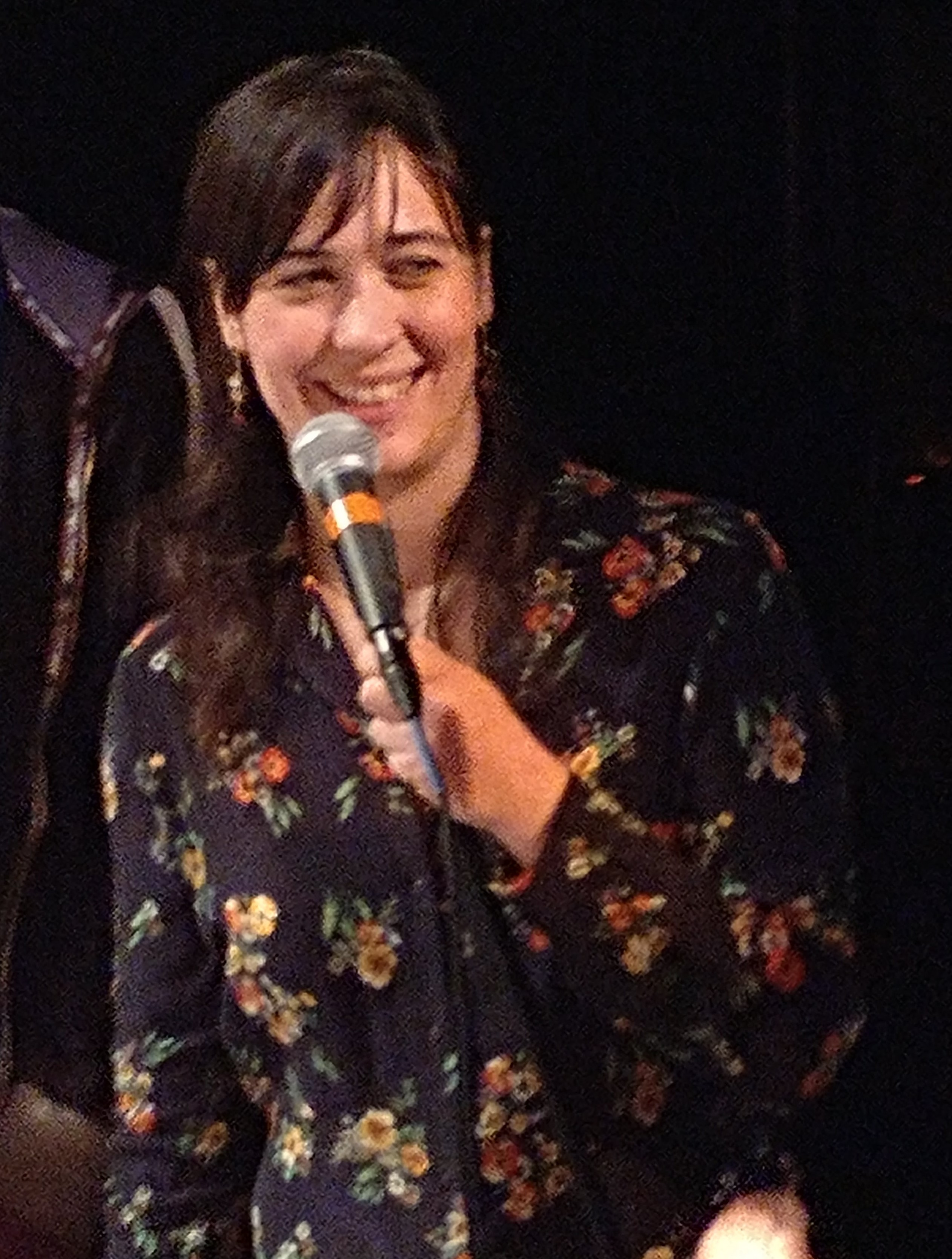 Raphaëlle Boitel, French director and performer, discusses her production When Angels Fall in 2019, in Boston.